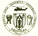 yeovil